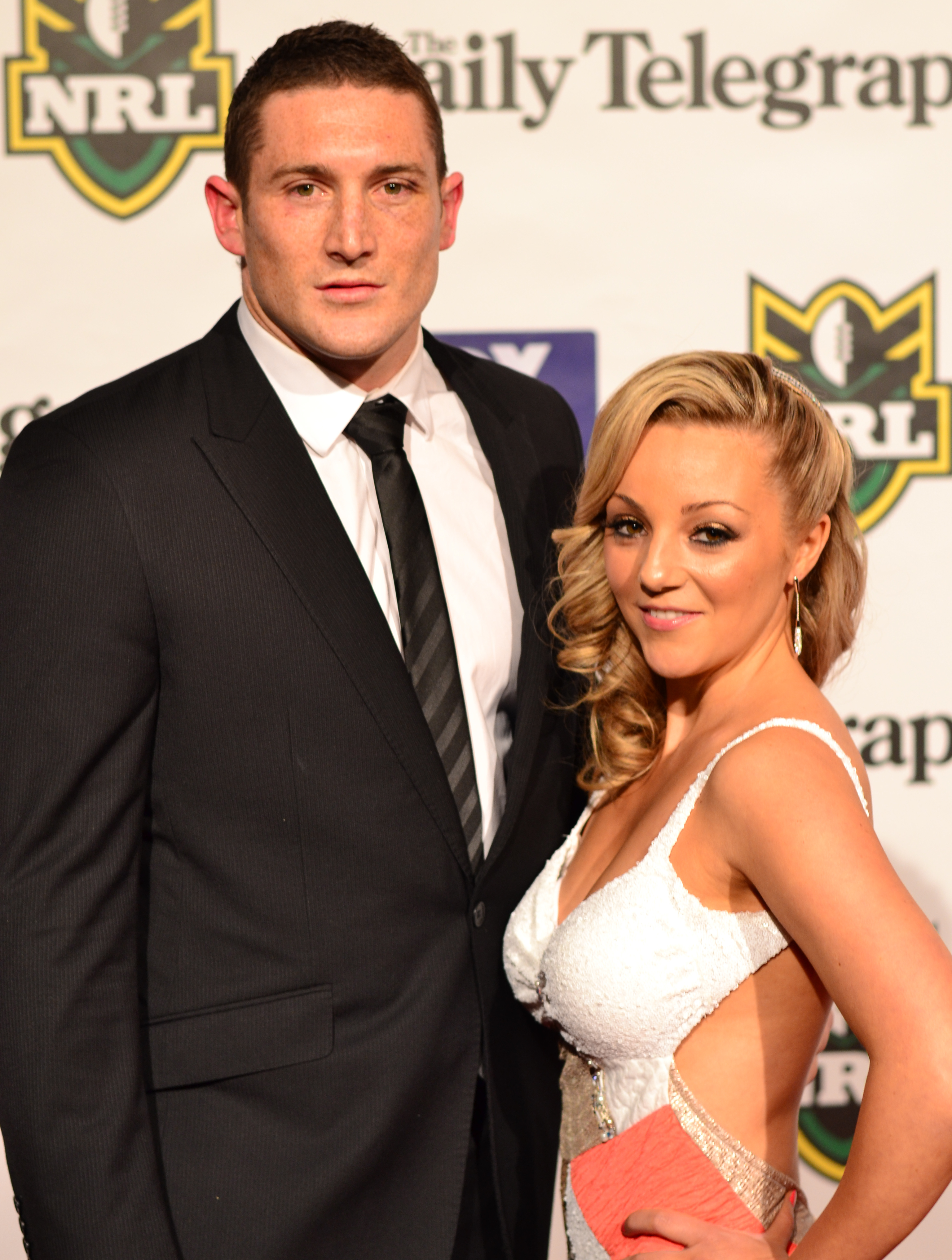 Ben Pomeroy and wife Erin Pomeroy at the 2012 NRL Dally M Awards.